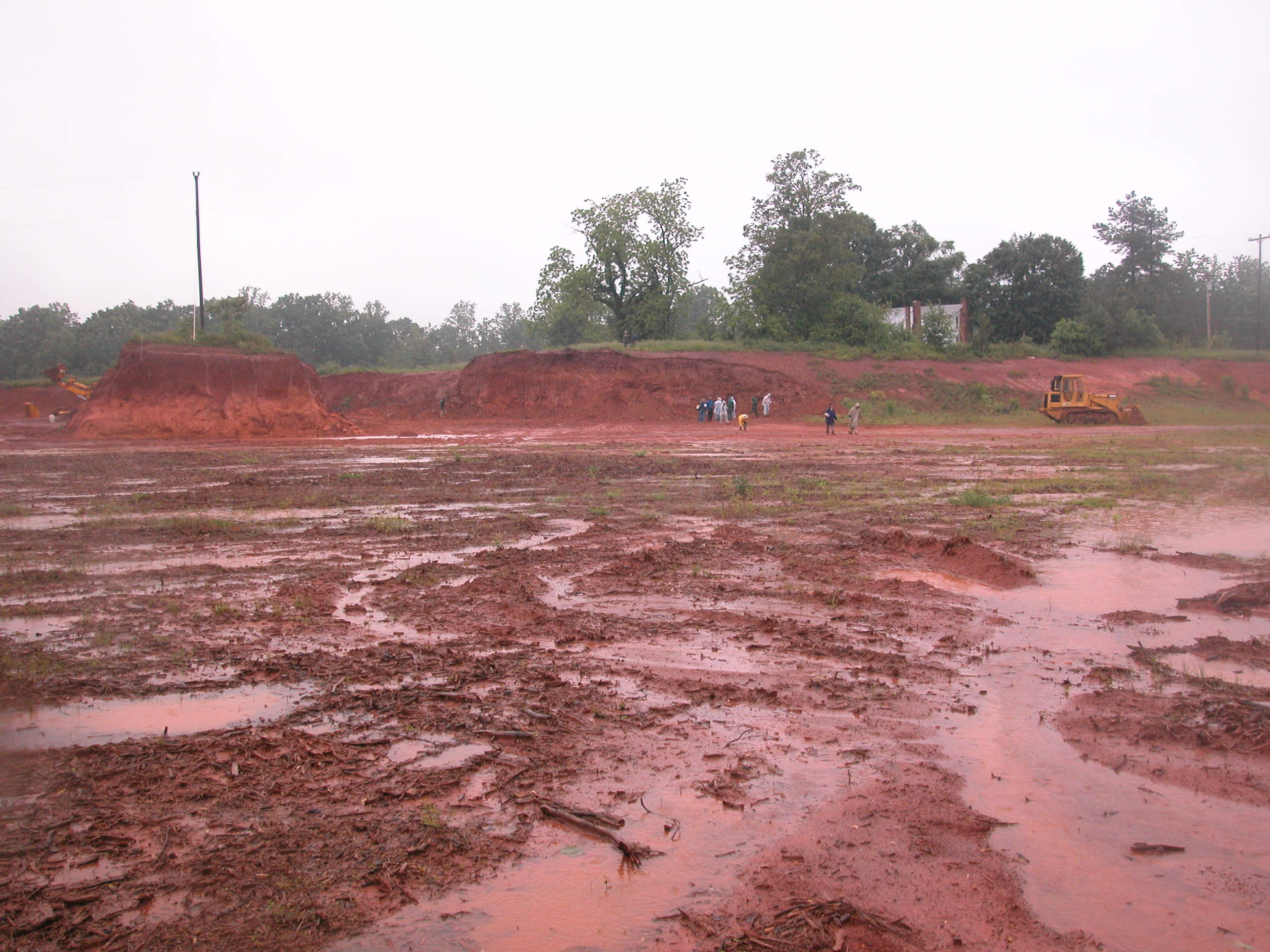 Photo showing a type of soil known as ultisol, common throughout the American South (especially near the piedmont), and colloquially known as "red clay soil". Photo taken in the Piedmont region of North Carolina.